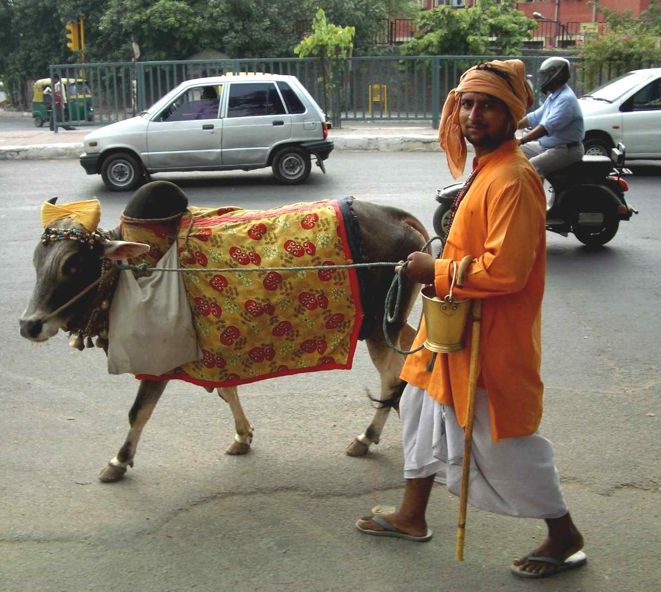 I, John Hill, took this photo in 2004.